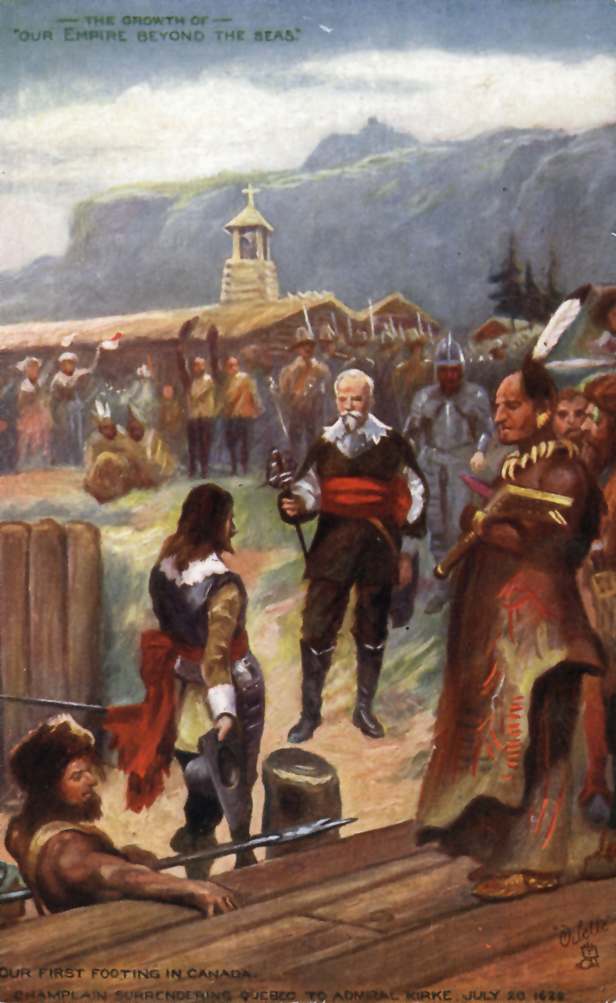 Champlain surrenderiing Quebec to Admiral Kirke, July 20 1628. OILETTE postcard, PRINTED IN ENGLAND AFTER THE BLACK AND WHITE DRAWING BY R. CATON WOODVILLE.